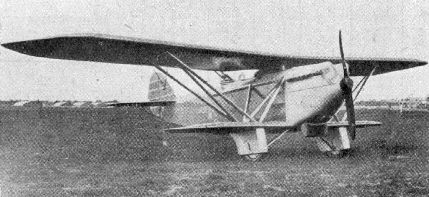 Descamps 16 photo from L'Aéronautique January,1926